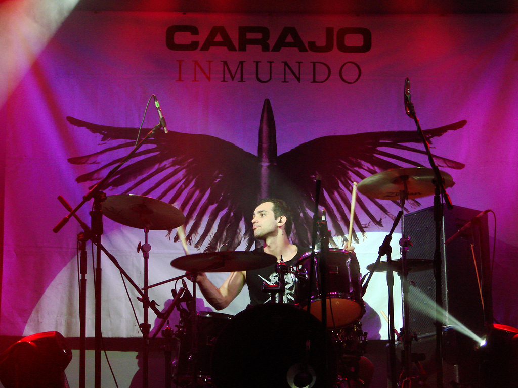 Andrés Vilanova from the argentinian band Carajo.